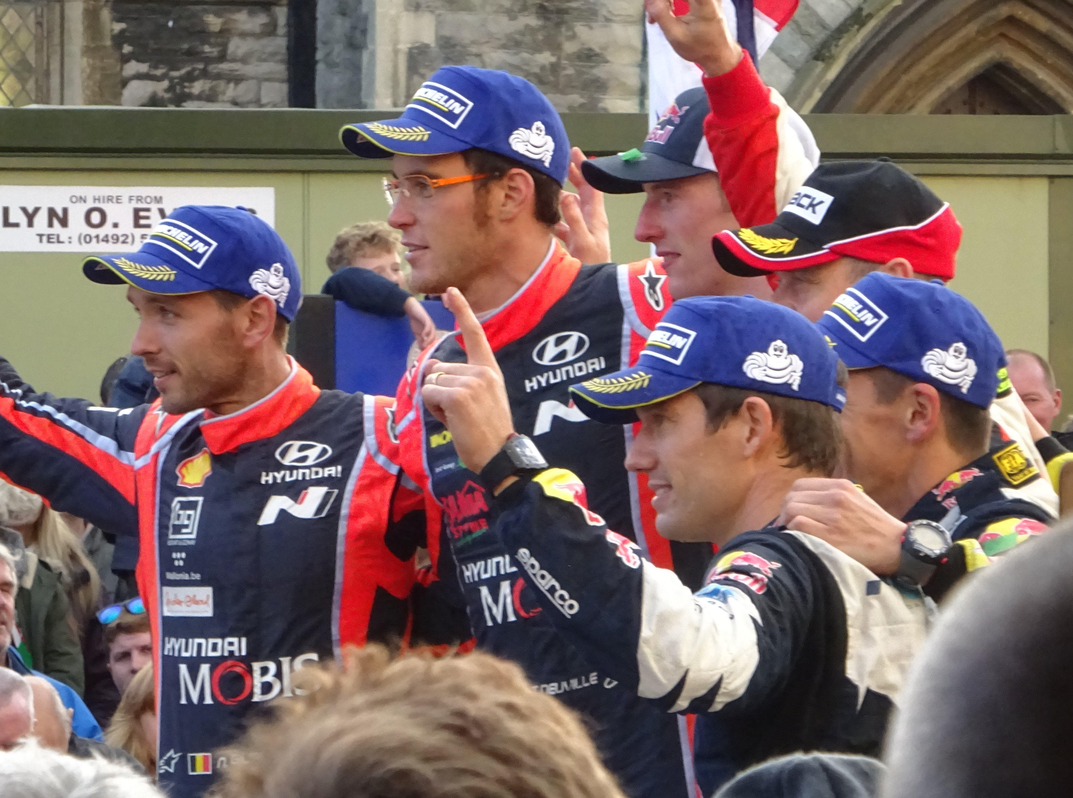 Welshman Elfyn Evans and co-driver Daniel Barritt, and runners up at the Awards ceremony. Winner of the Wales Rally GB - penultimate round of the globe-trotting World Rally Championship; Llandudno, Wales, 29 October 2017.